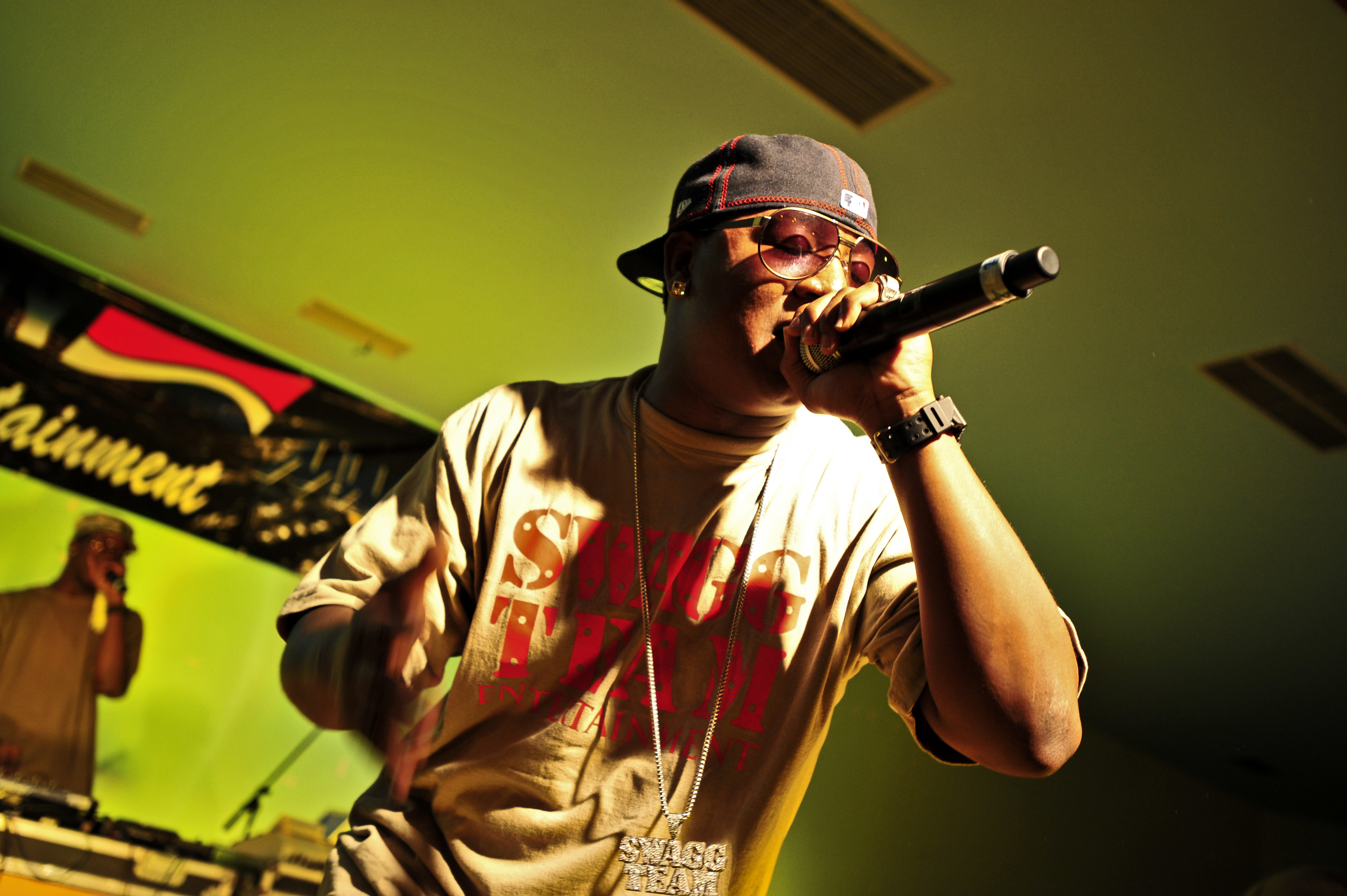 Recording artist Yung Joc performs for deployed service members at Camp Lemonier, Djibouti, April 18, 2009.